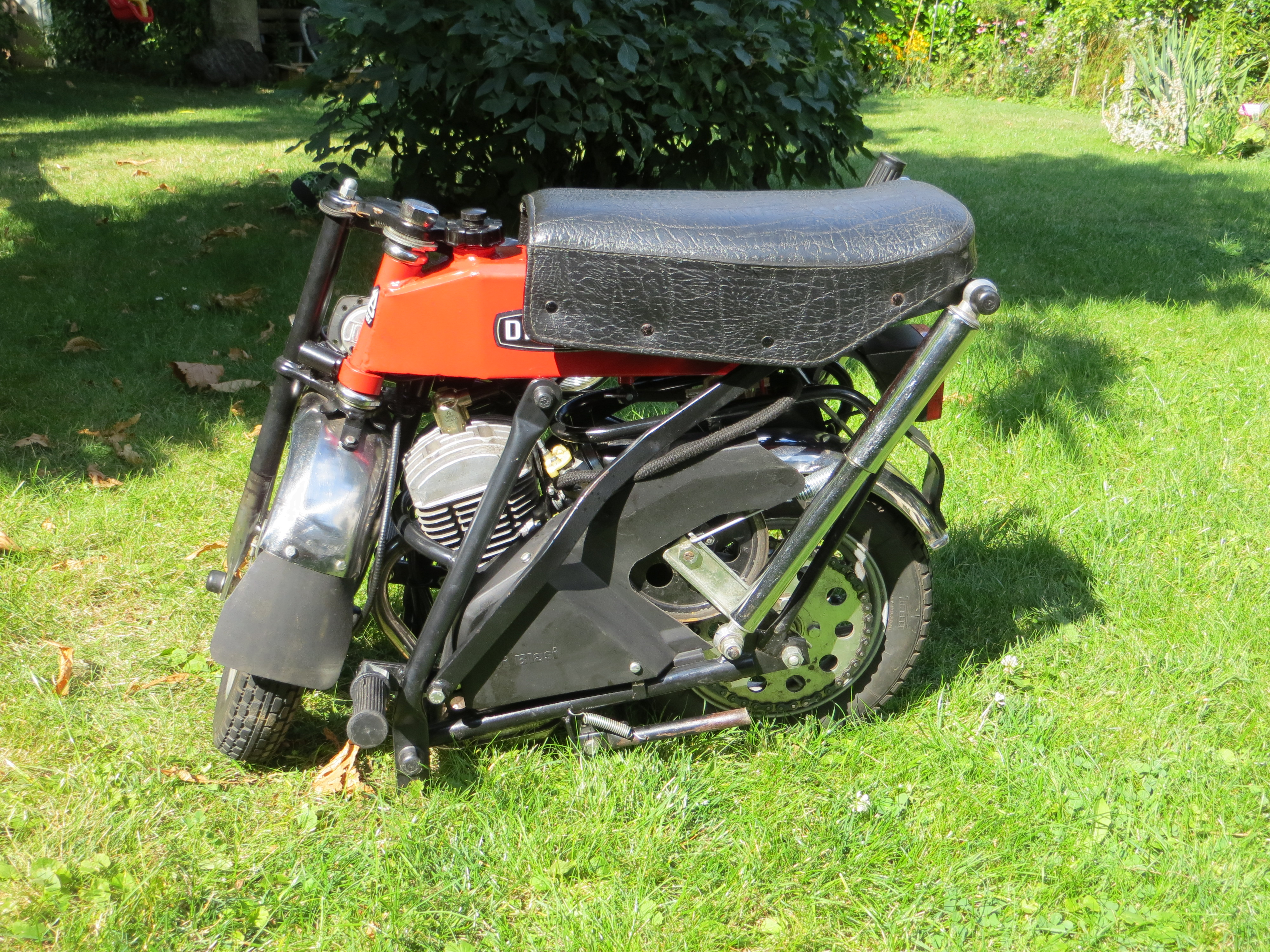 Di Blasi Motorcycle Typ R7 from 1982 folded